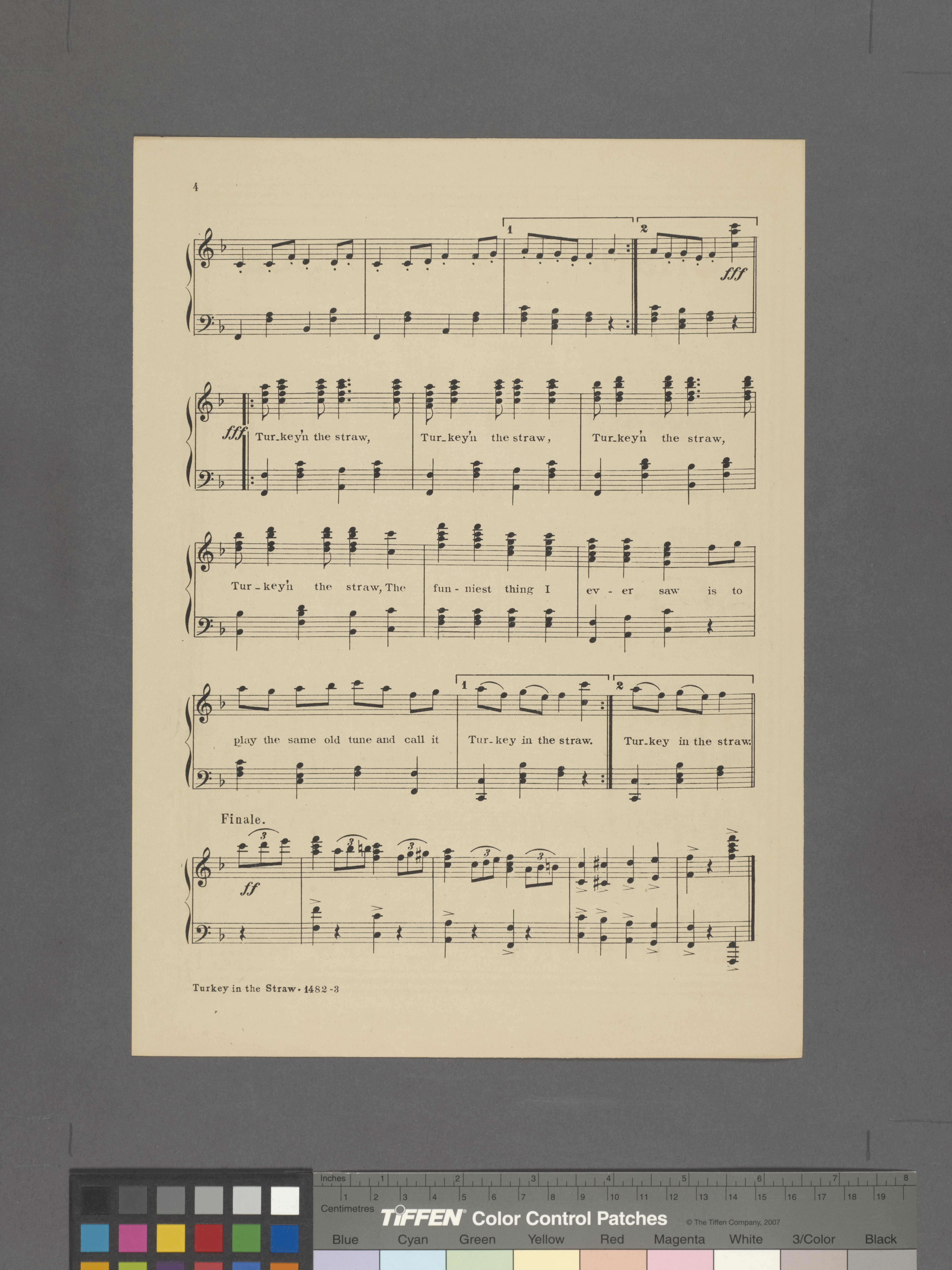 Cover design includes drawing of a stereotyped image of an African American boy or man climbing on the roof of a coop, and peering down at a turkey within; that turkey as well as one outside the coop look suspiciously at the African American; another African American peers through a crack in the wall from the rear. Descriptive subtitle on cover and below caption title: a rag-time fantasie. For piano. Statement of responsibility : by Otto Bonnell.